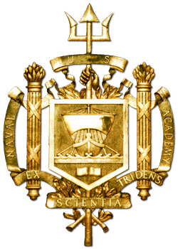 United States Naval Academy Coat of Arms.